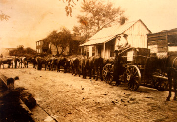 The funeral procession of John C. C. Mayo proceeding down Second Street in Paintsville, Kentucky. This photo was taken in 1914 and published soon after. Therefore, it is in the public domain.